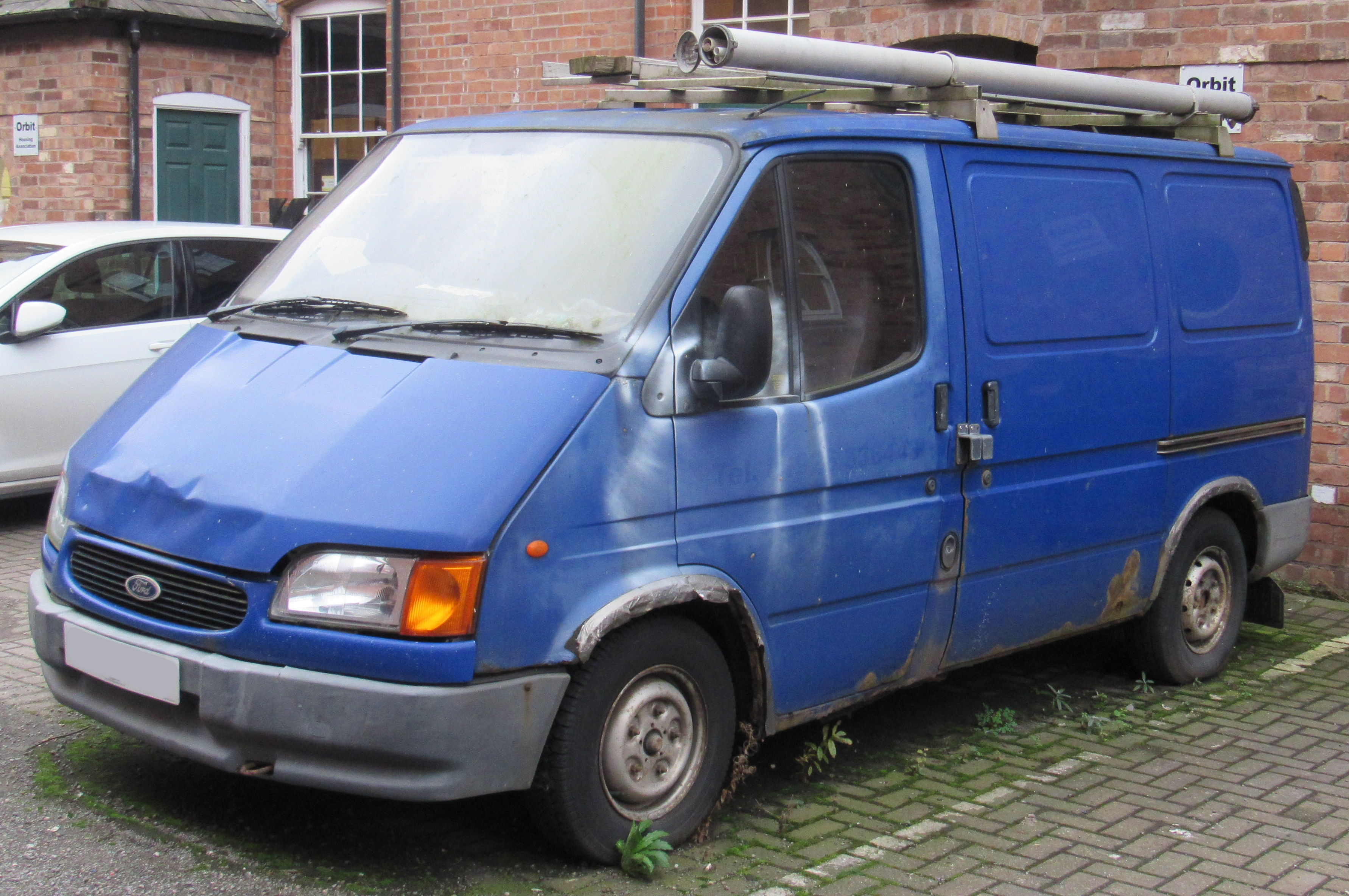 2000 Ford Transit 120 SWB 2.5 Taken in Leamington Spa